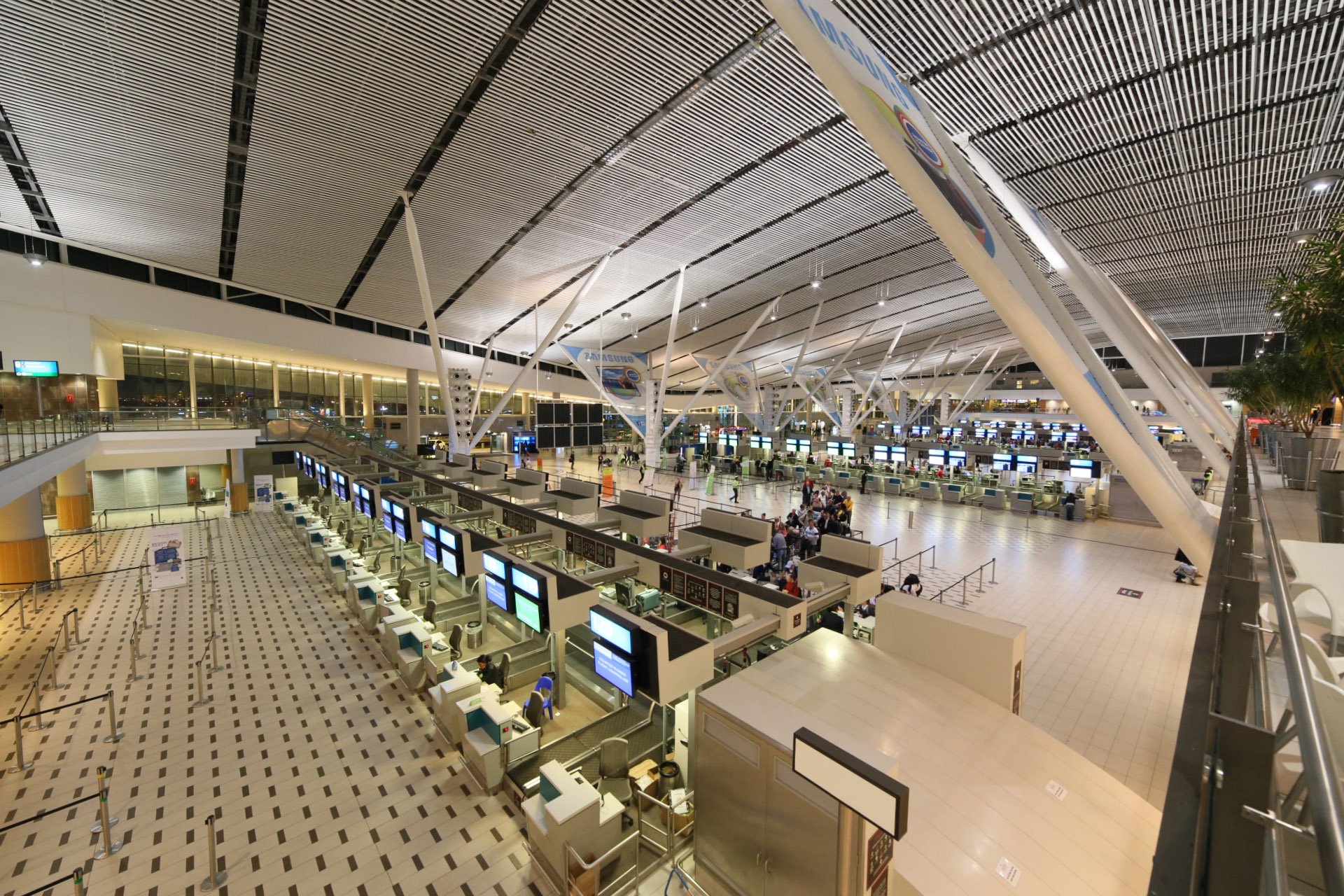 Departure hall of Cape Town international Airport taken with Samyang 14mm lens